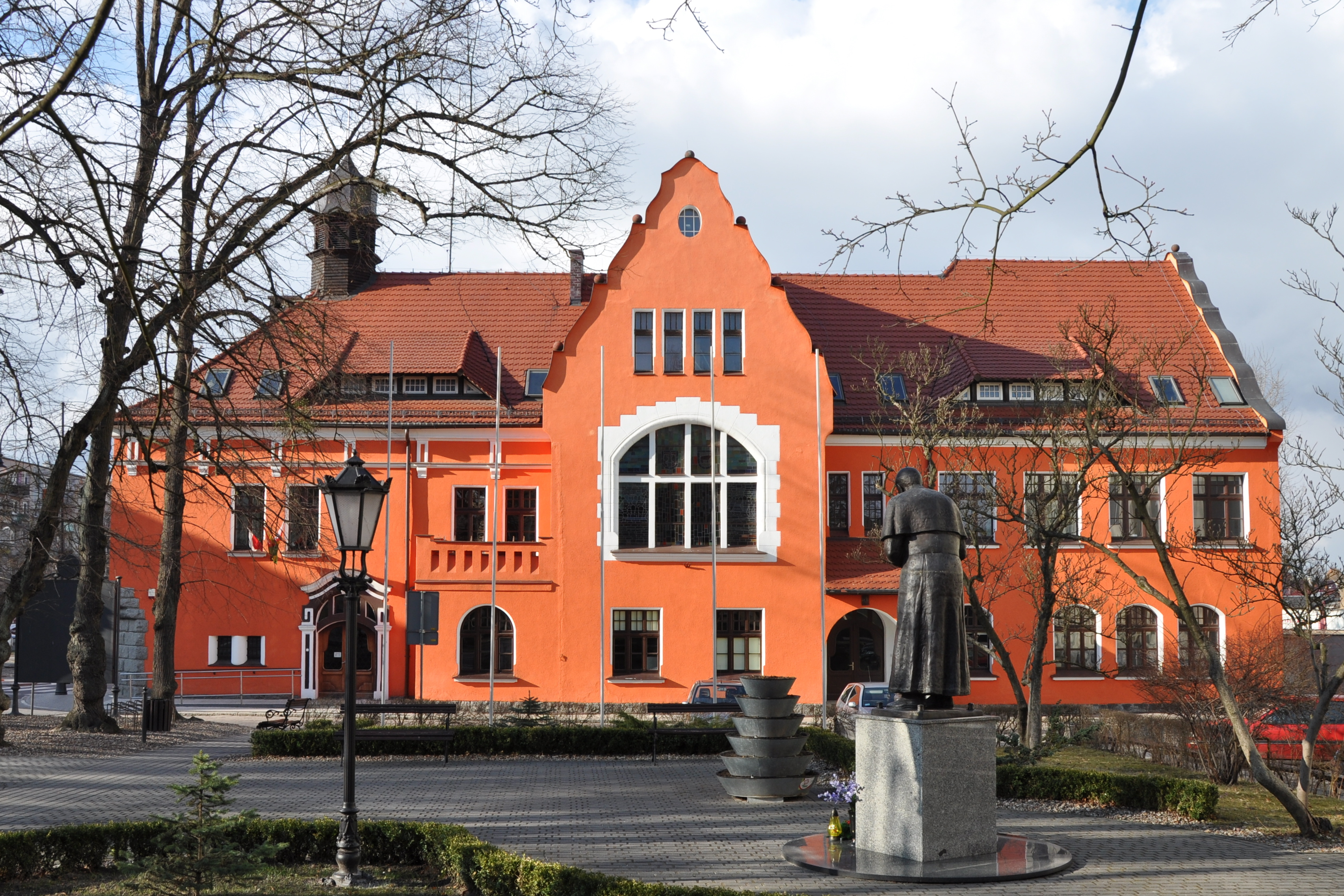 Trzcianka Town Hall, south wall side